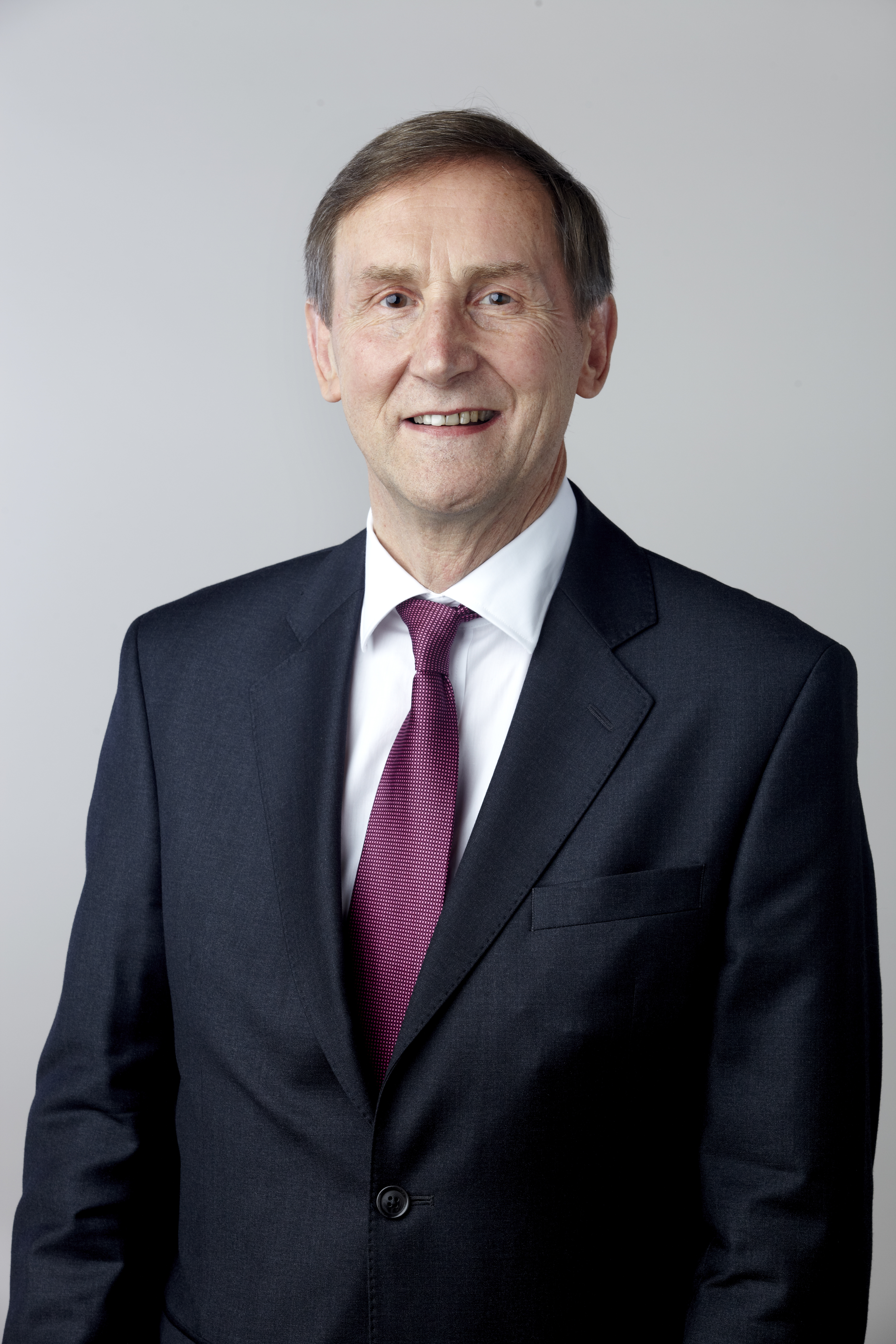 Professor Anthony Watts FRS, Royal Society Fellow elected 2014 Attribution: The Royal Society